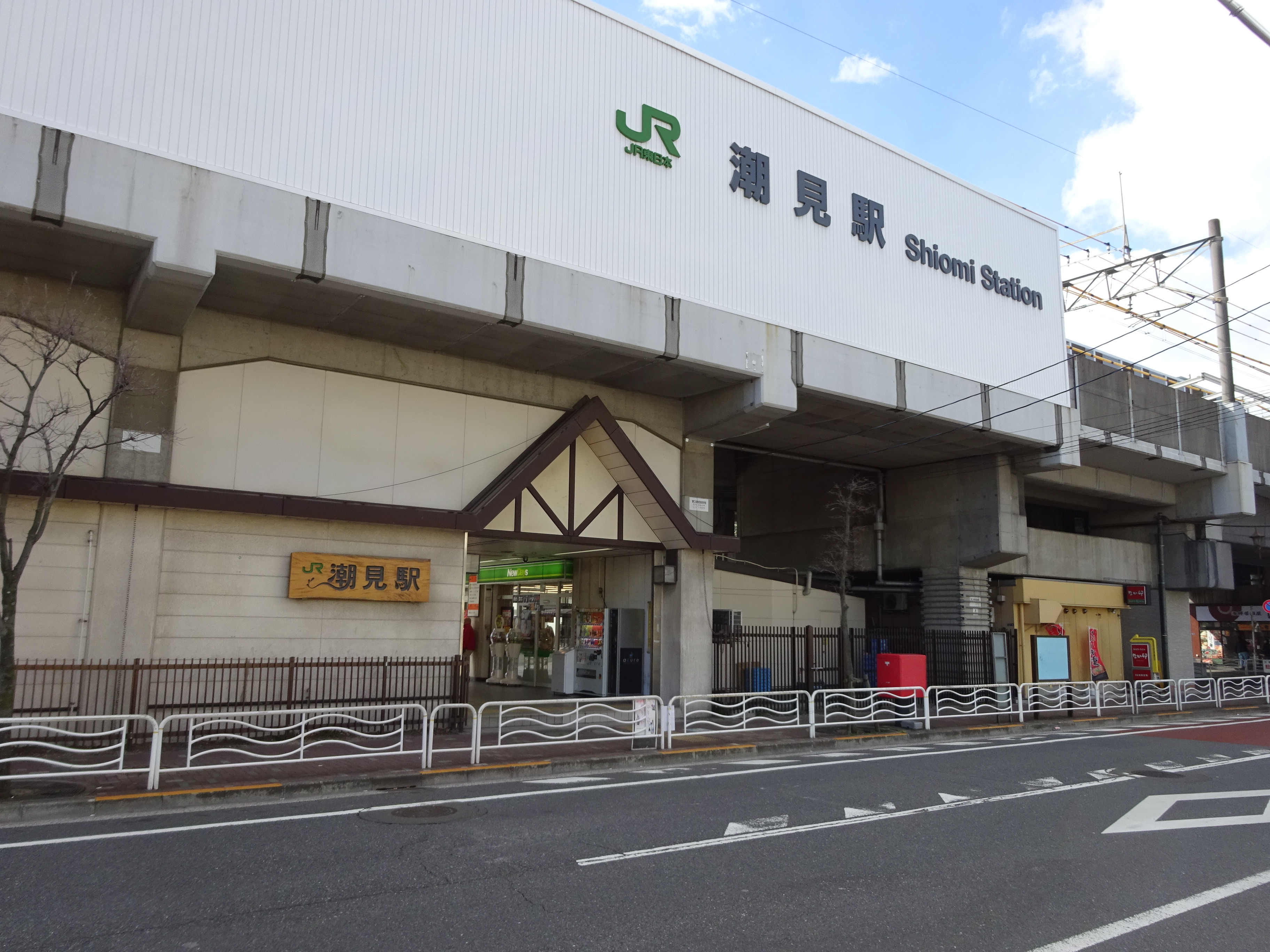 East entrance of Shiomi Station (Tokyo)